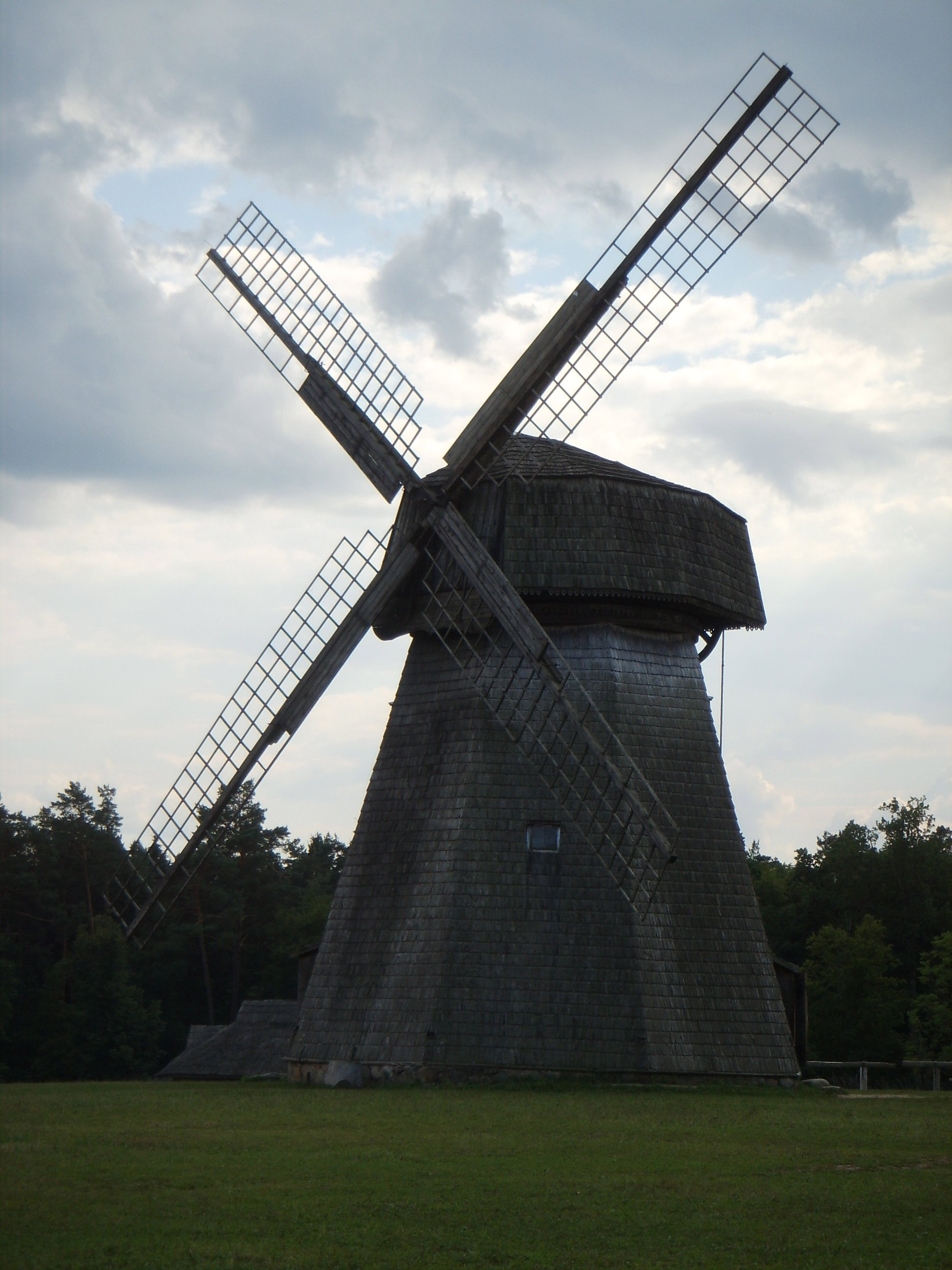 Open air ethnographic museum, Lithuania, Rumšiškės eldership, Kaišiadorys district municipality